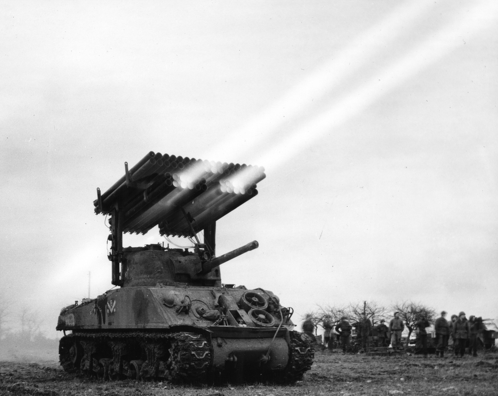 Firing 4.5 inch rockets from M4-Sherman "Calliope" multiple rocket launcher, mounted on M-4, No. A-3 tank. 14th Armored, France.